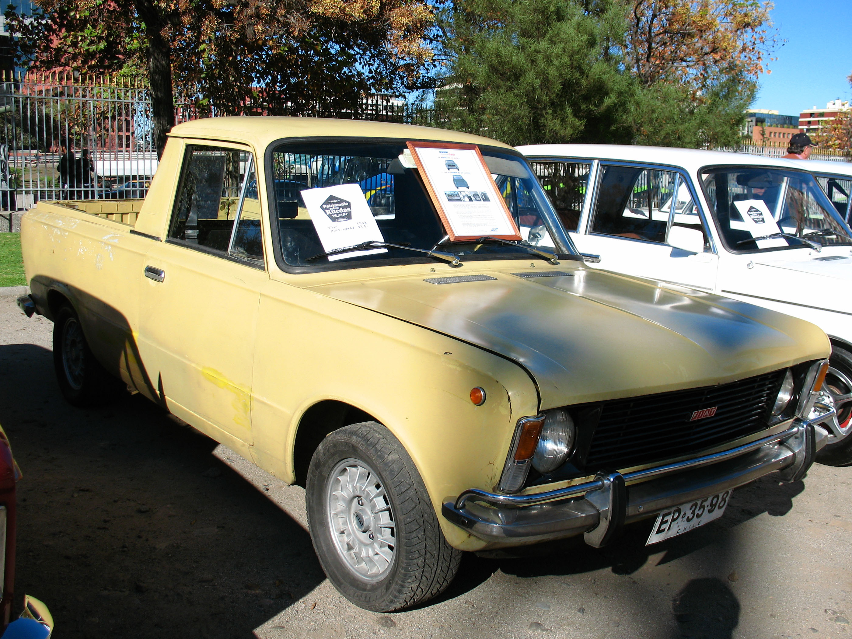 Fiat 125 pick-up designed and made in Argentina